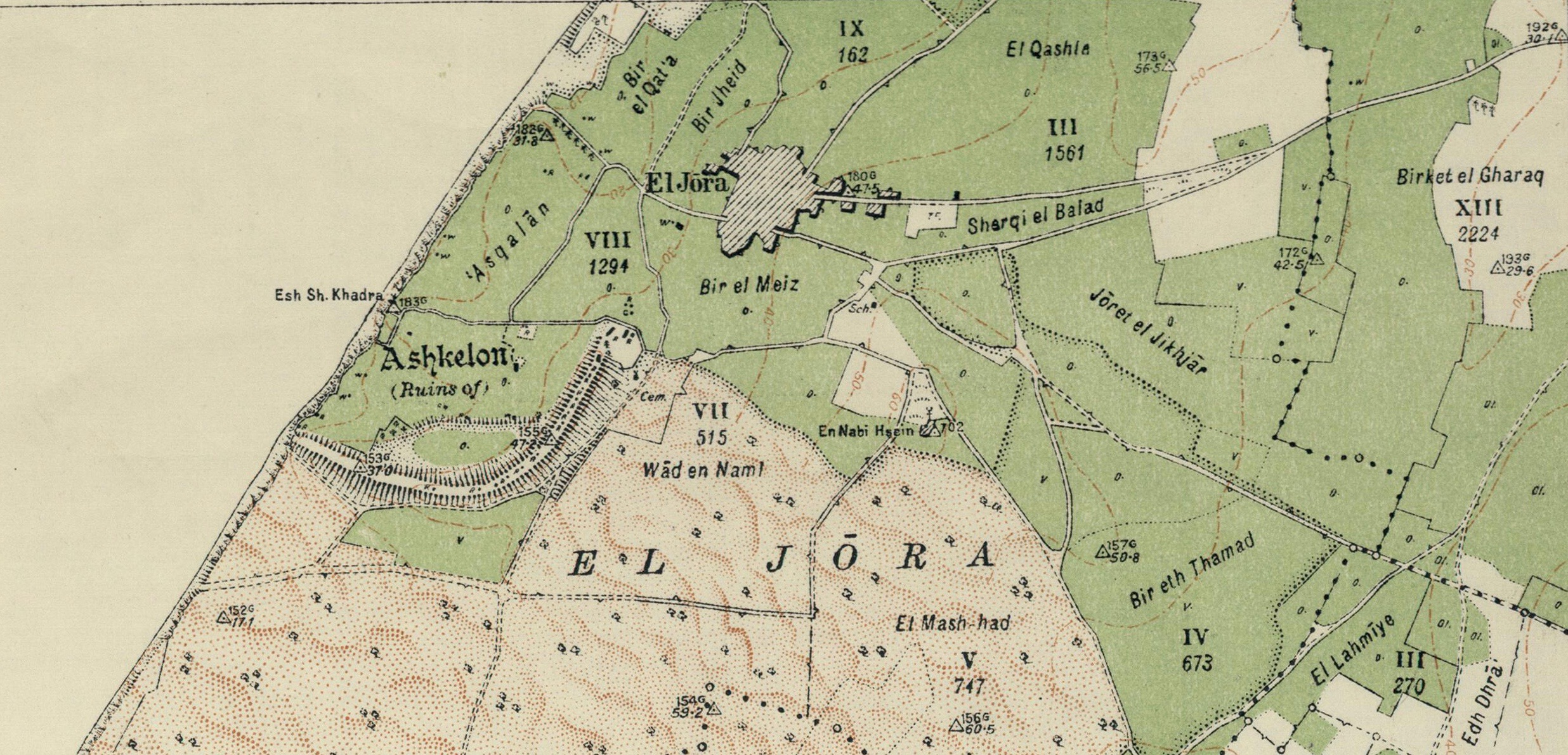 Al-Jura 1931 1:20,000